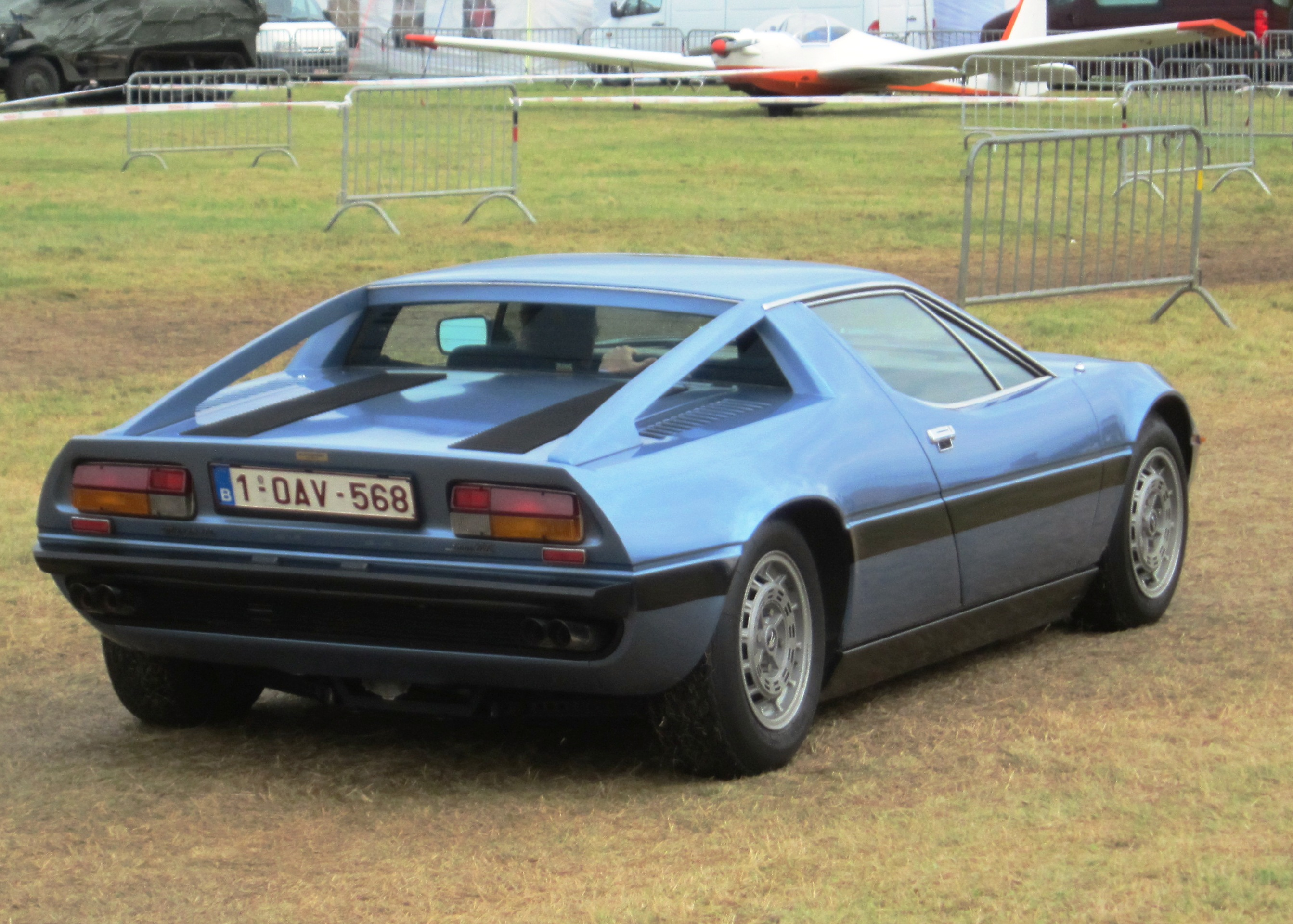 Maserati Merak 2000 GT rear three quarters at Schaffen-Diest in 2014